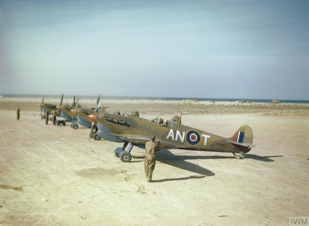 Flight Lieutenant W.H. Pentland, of No. 417 Squadron, Royal Canadian Air Force, awaiting start up in his Supermarine Spitfire Mark VC (s/n BR195 'AN-T') at Goubrine, Tunisia, in May 1943. Other aircraft of the squadron are lined up alongside.